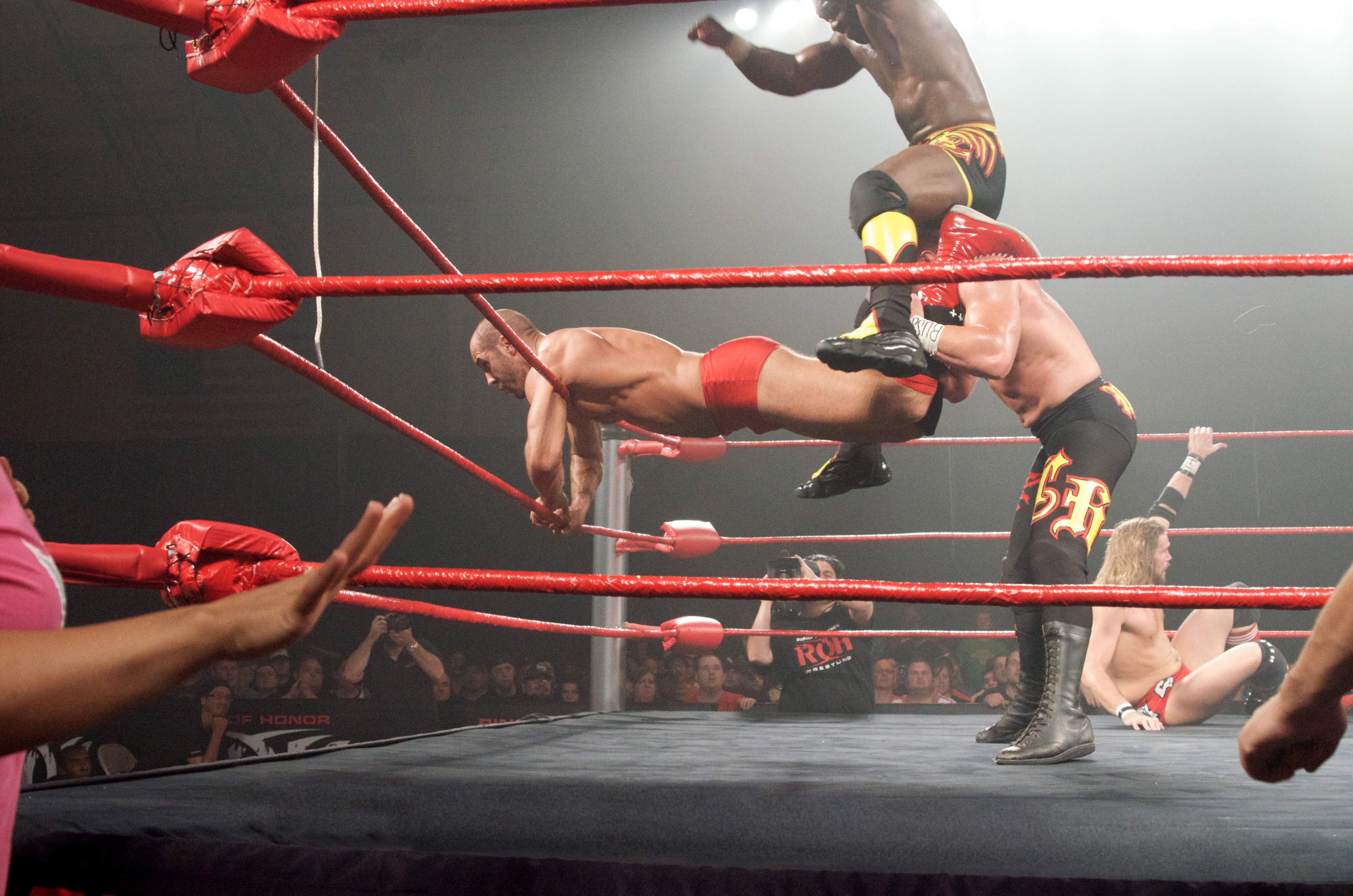 Professional wrestling tag team Shelton Benjamin (above) and Charlie Haas (right) performing a signature move on Claudio Castagnoli (rope hung) at a Ring of Honor TV taping.